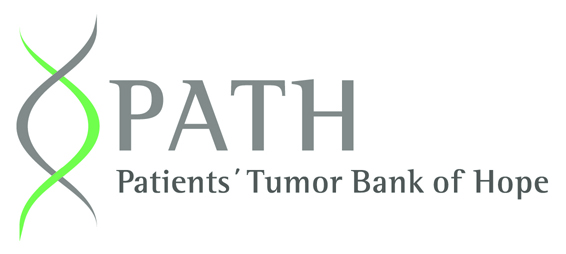 PATH Logo